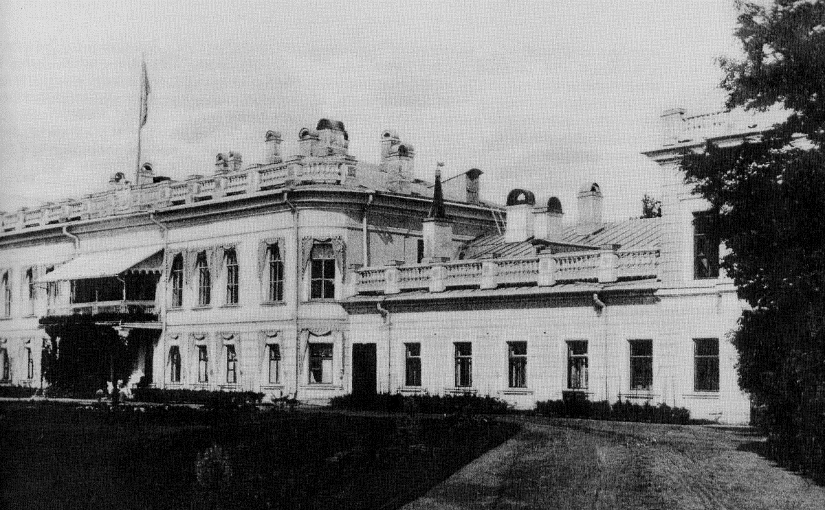 Vybiti, the manor house of Princes Vassiltchikov